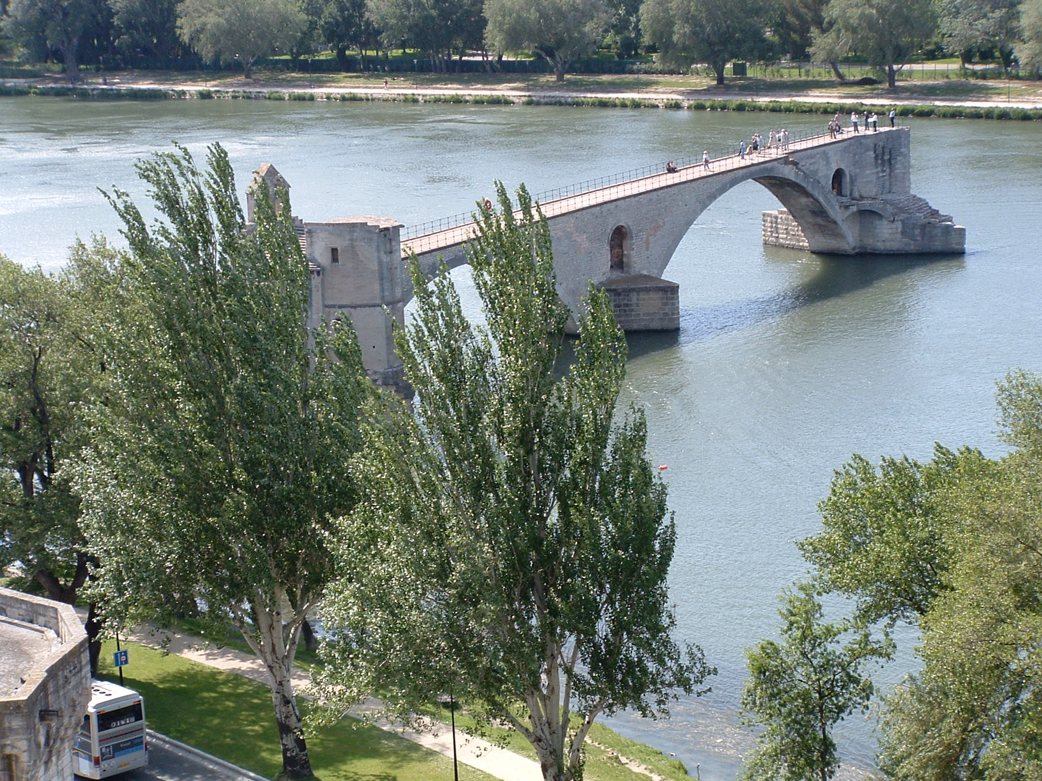 View of the Pont d'Avignon from the park above the river